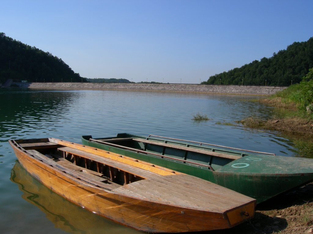 Dam and lake Sniježnica in Bosnia and Herzegovina.